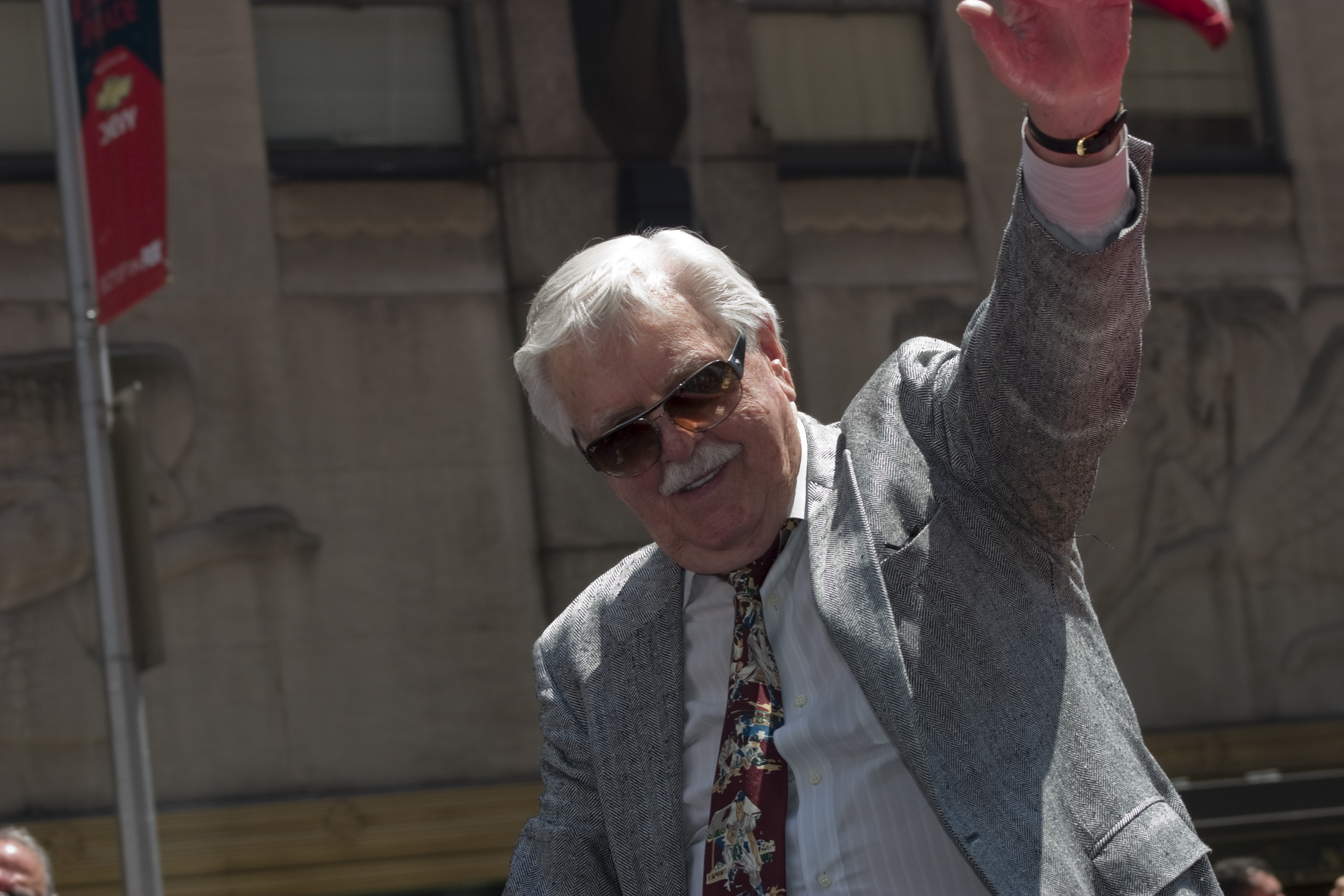 Hall of Fame baseball player Dick Williams at the 2008 All-Star Game Red Carpet Parade. Photographer Martyna Borkowski